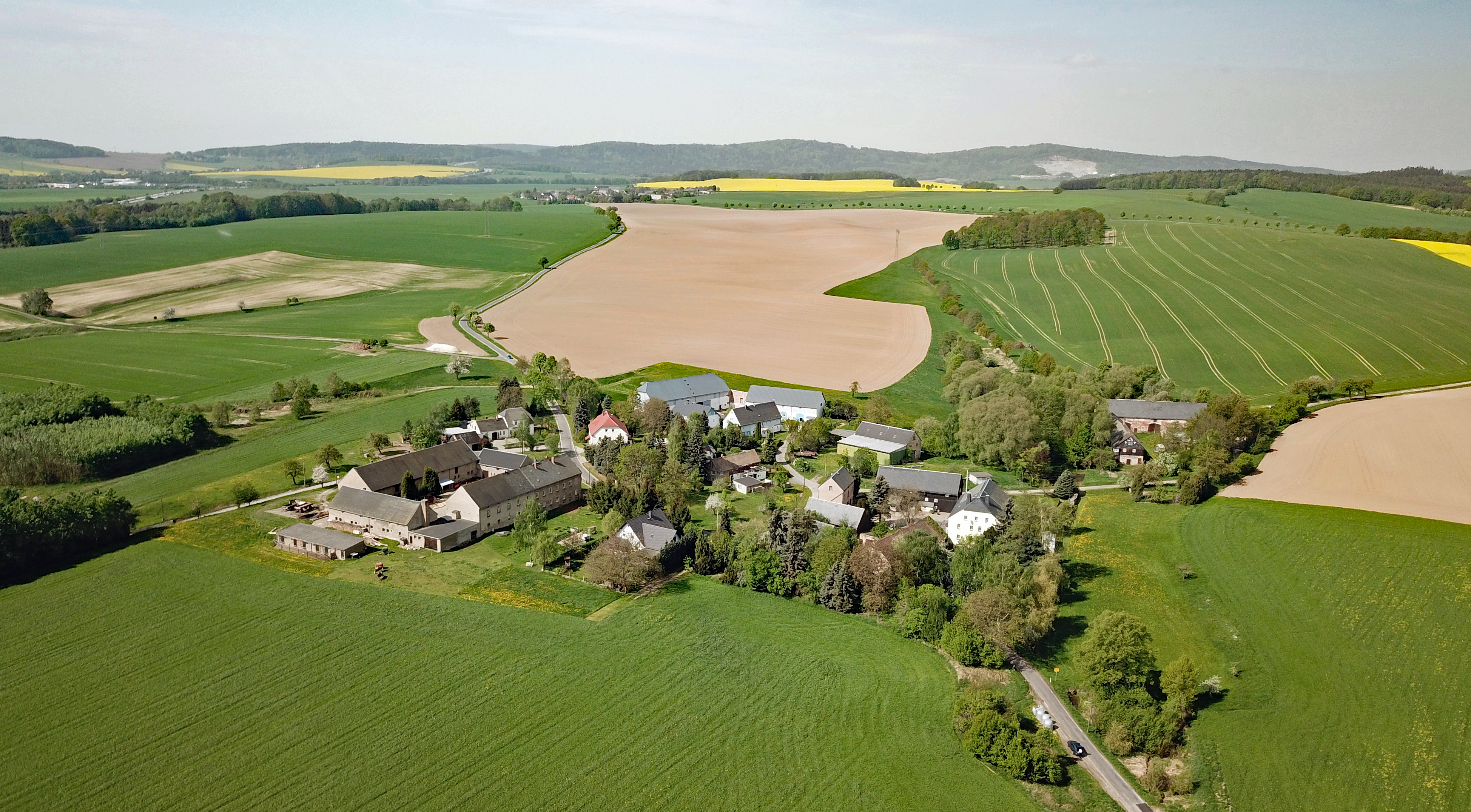 Glaubnitz (Panschwitz-Kuckau, Saxony, Germany) Hornjoserbsce: Powětrowy wobraz Hłupońcy